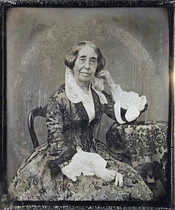 Daguerreotype of María Sánchez de Mendeville taken in Montevideo, Uruguay.